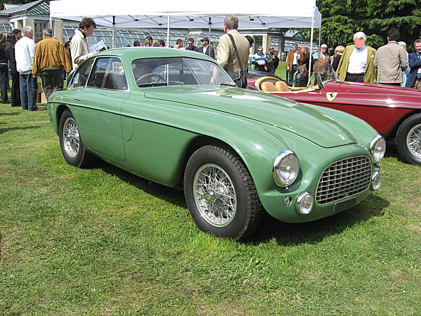 Subject: 1951 model Ferrari 212 Export Berlinetta Touring. Date:April 27th, 2008 Event:Concorso d’Eleganza”Villa d’Este” 2008 Place/Country: Cernobbio (CO), Italy 1951 model Ferrari 212 Export Berlinetta (chassis #0112E)[1] bodied by Carrozzeria Touring (body #3565).[2]This car was raced by its first owner, racing driver and conte Gerino Gerini (1928–2013). After a year, sold to Australia. Sold 2003 to dutch Douwe Heida[3] who painted it in its original colors (green). Around 2008 sold to Paolo Casella of Milano.[4] I release all rights in the public domain.